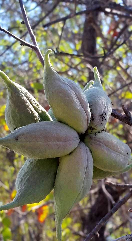 Sterculia rogersii - Mopane Camp, Kruger National Park, South Africa